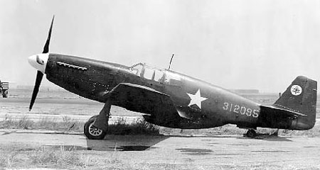 North American P-51B-NA